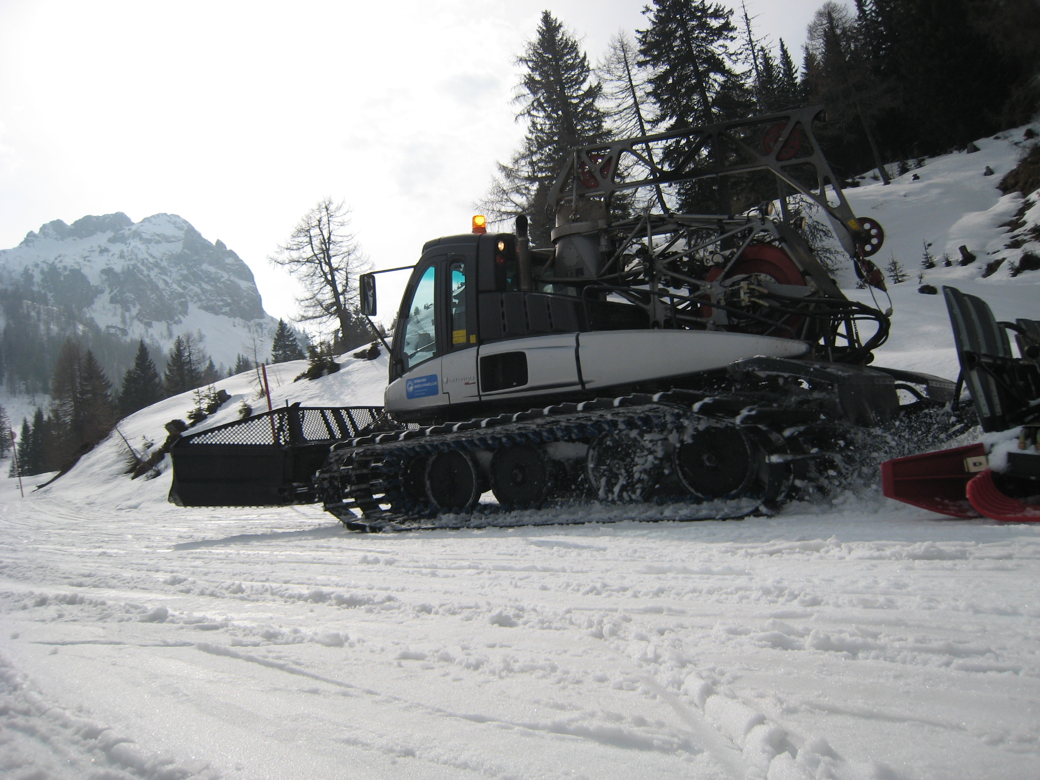 A working snow groomer